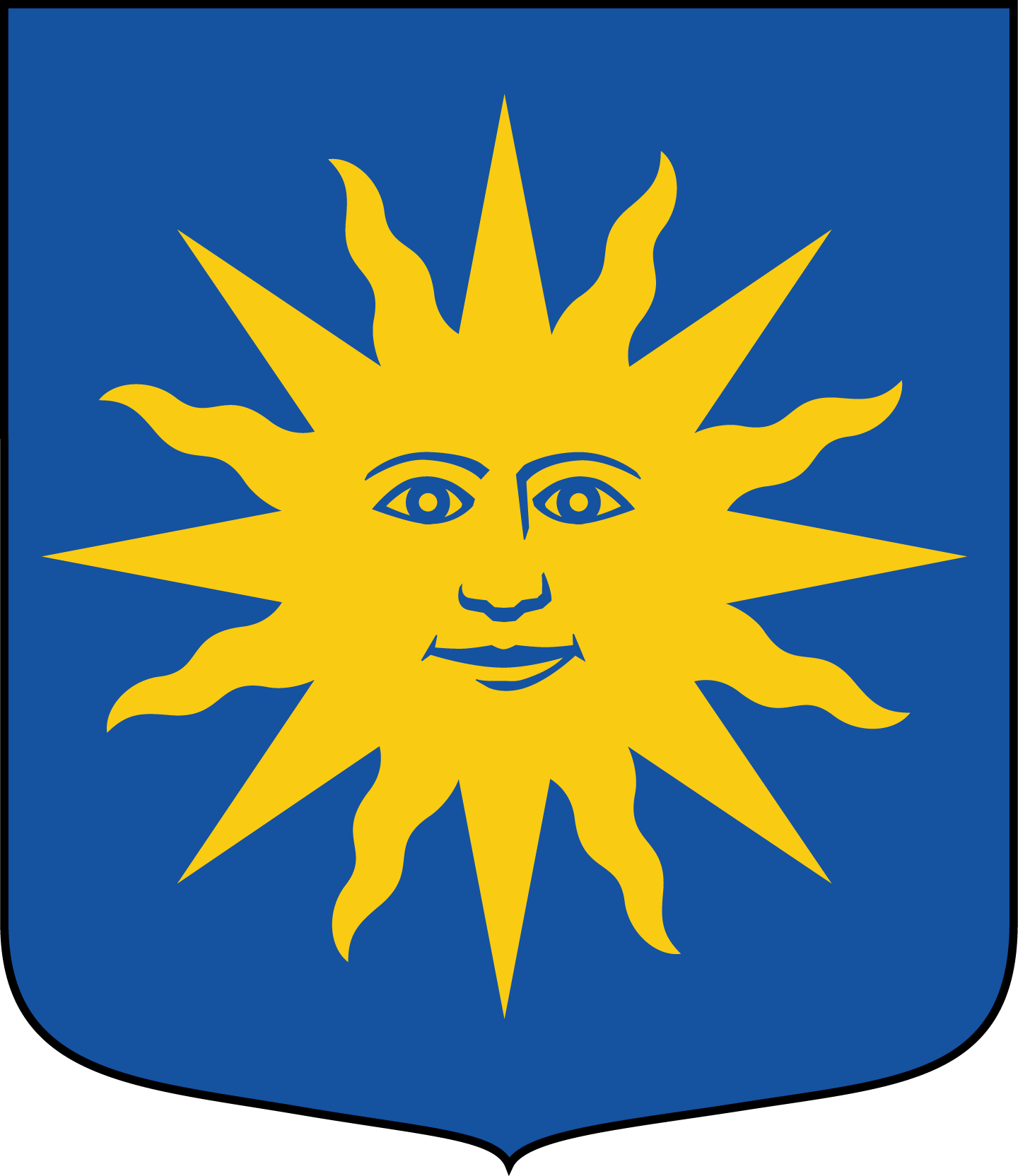 Coat of arms of the municipality of Solna, Sweden. Painted by Vladimir A. Sagerlund when he was the heraldic artist at the National Archives of Sweden (Riksarkivet). This representation of a coat of arms is potentially different from the one used by the armiger (municipality or organisation) in question. = ⇑“Sable, a lionrampant or” This coat of arms was drawn based on its blazon which – being a written description – is free from copyright. Any illustration conforming with the blazon of the arms is considered to be heraldically correct. Thus several different artistic interpretations of the same coat of arms can exist. The design officially used by the armiger is likely protected by copyright, in which case it cannot be used here.Individual representations of a coat of arms, drawn from a blazon, may have a copyright belonging to the artist, but are not necessarily derivative works. Further information: Commons:Coats of arms and Template:Coa blazon